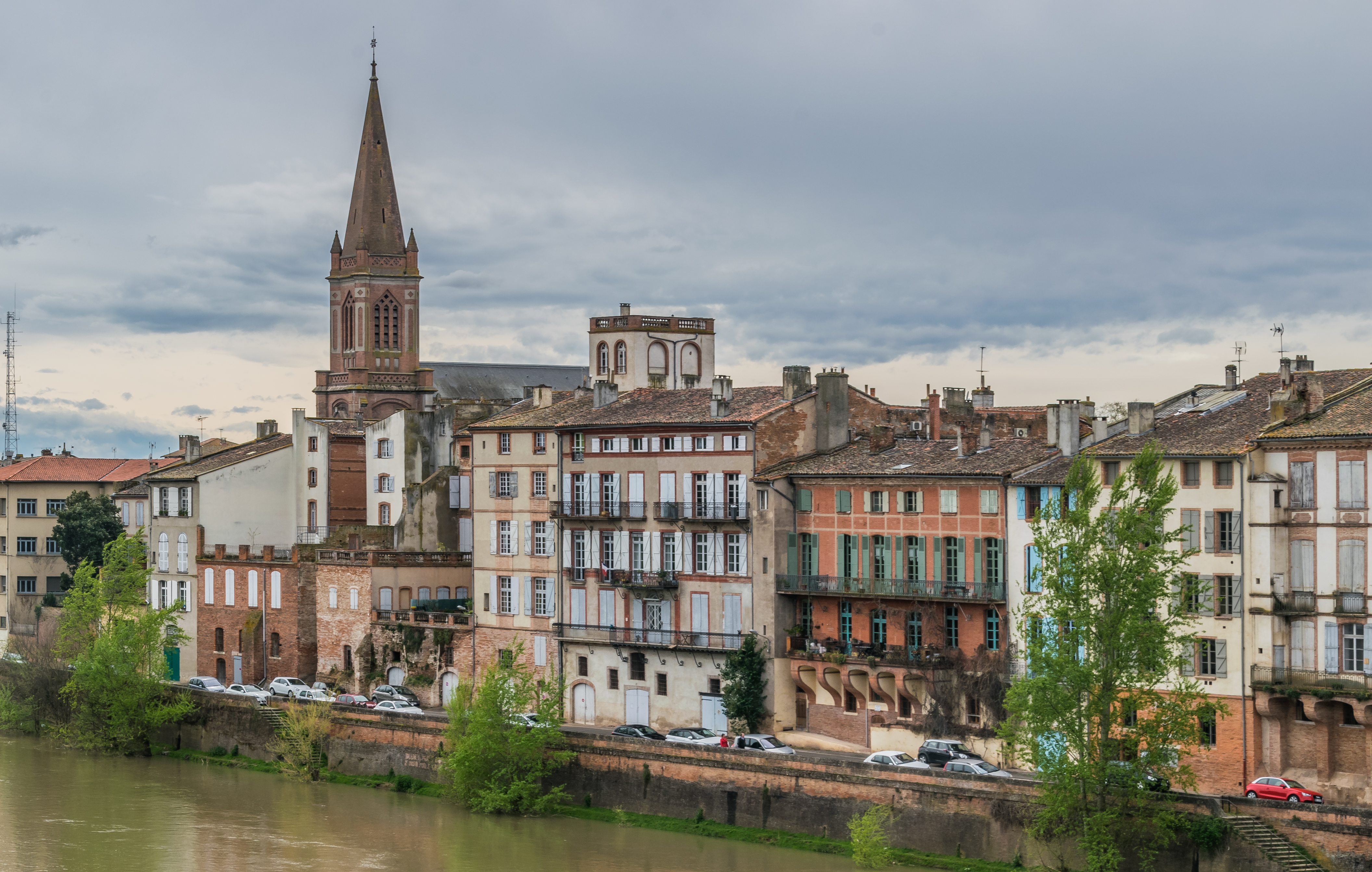 Western frontage of Tarn River in Montauban, Tarn-et-Garonne, France